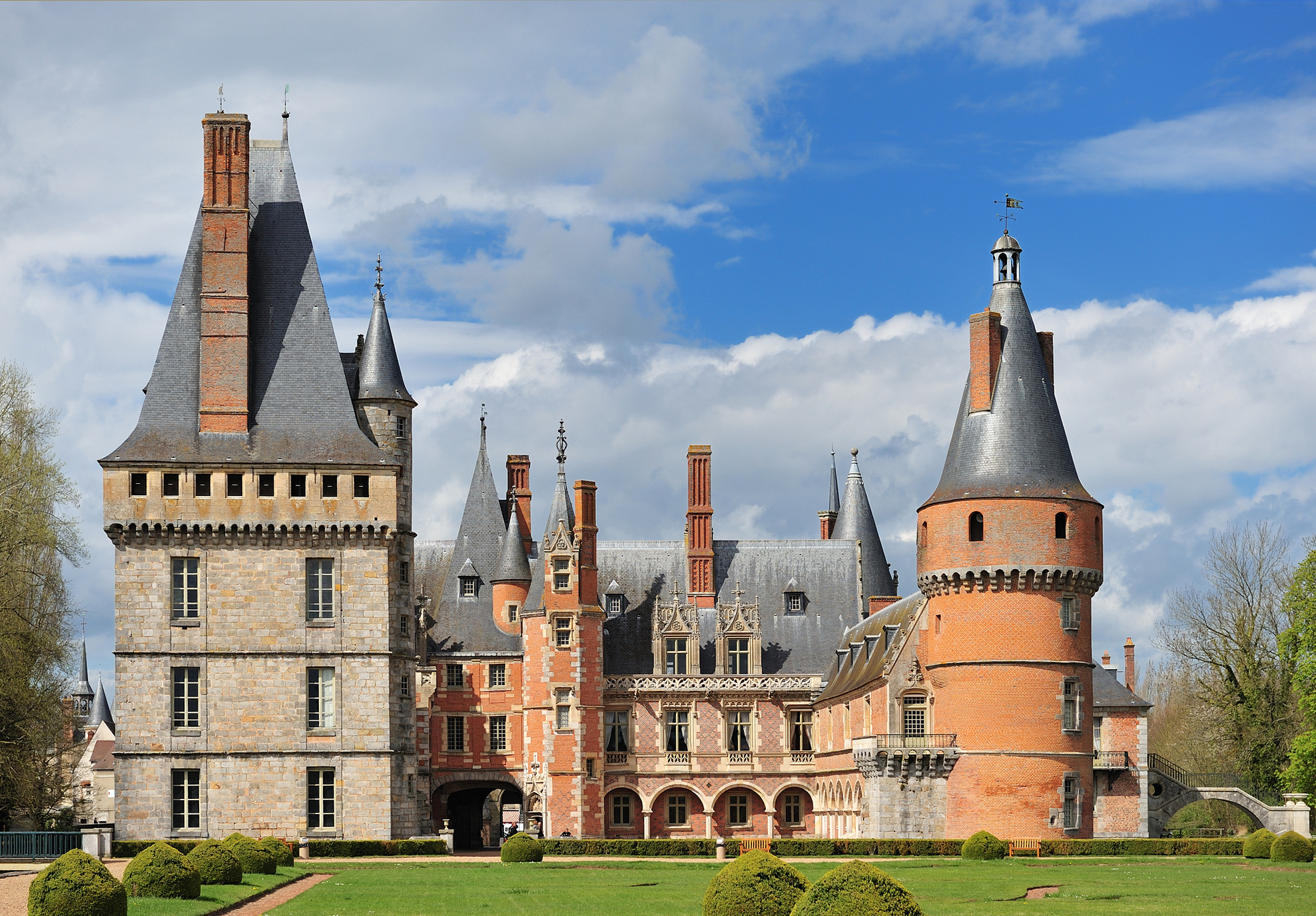 le Chateau de Maintenon, France This is a retouched picture, which means that it has been digitally altered from its original version. Modifications: perspective corrected by Lycaon.